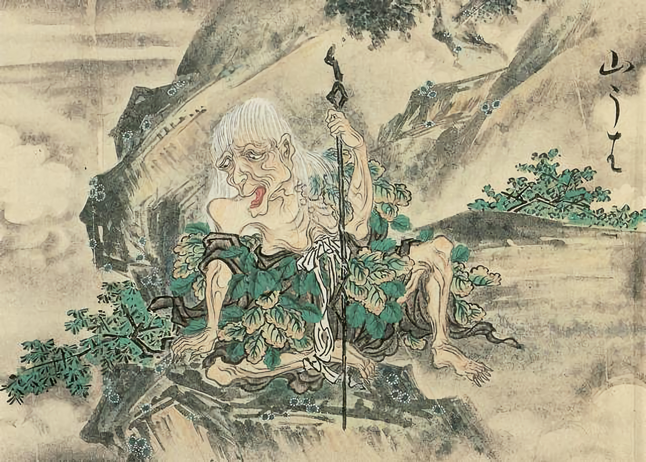 Yama-uba (the mountain hag) from Hyakkai-Zukan